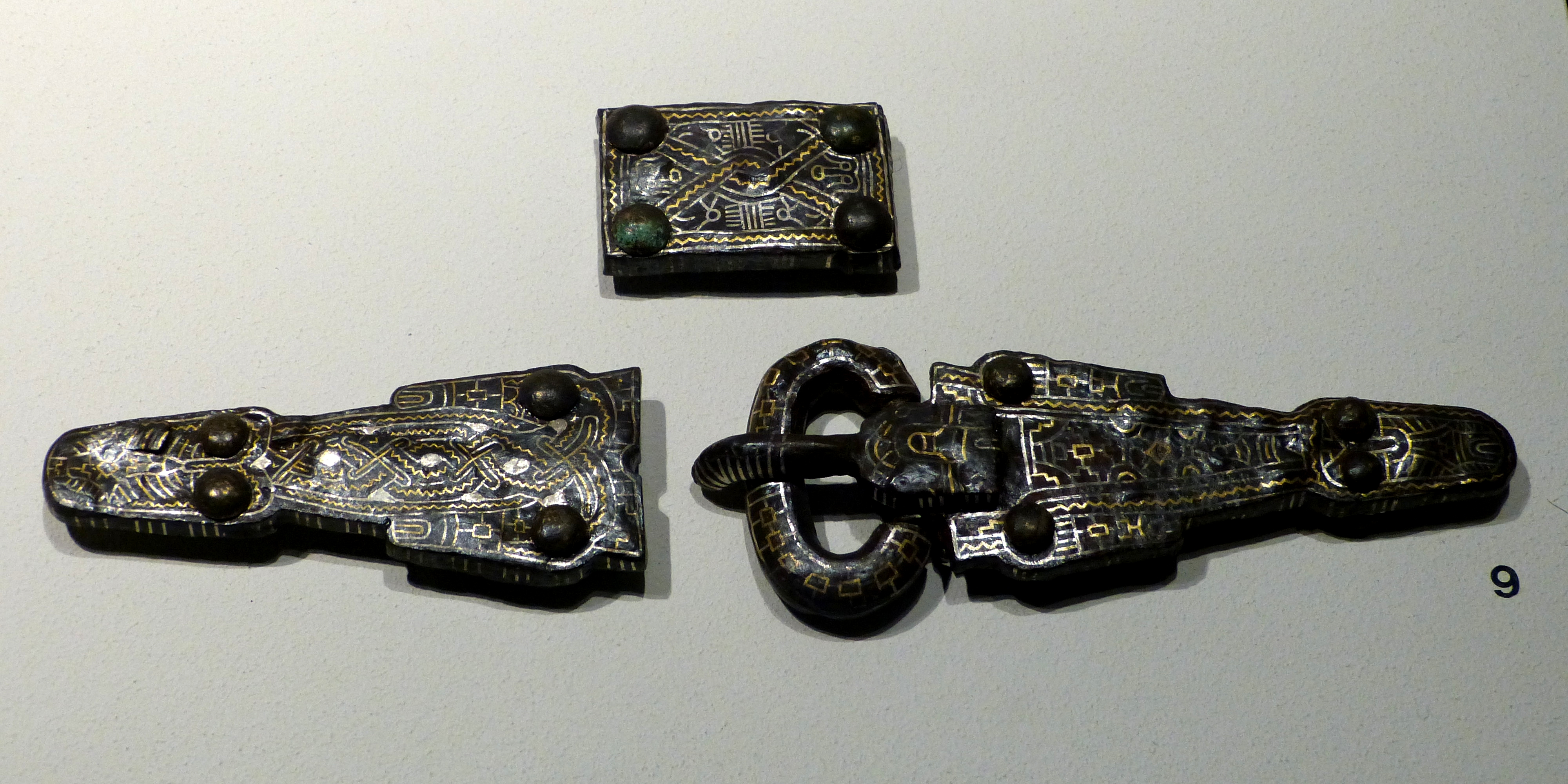 Straubing ( Lower Bavaria ). Gäubodenmuseum: Bavarian belt buckle with silver and brass damascening..